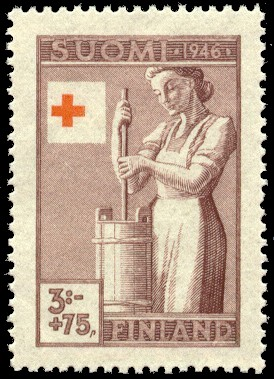 Postage stamp depicting a woman peasant churning